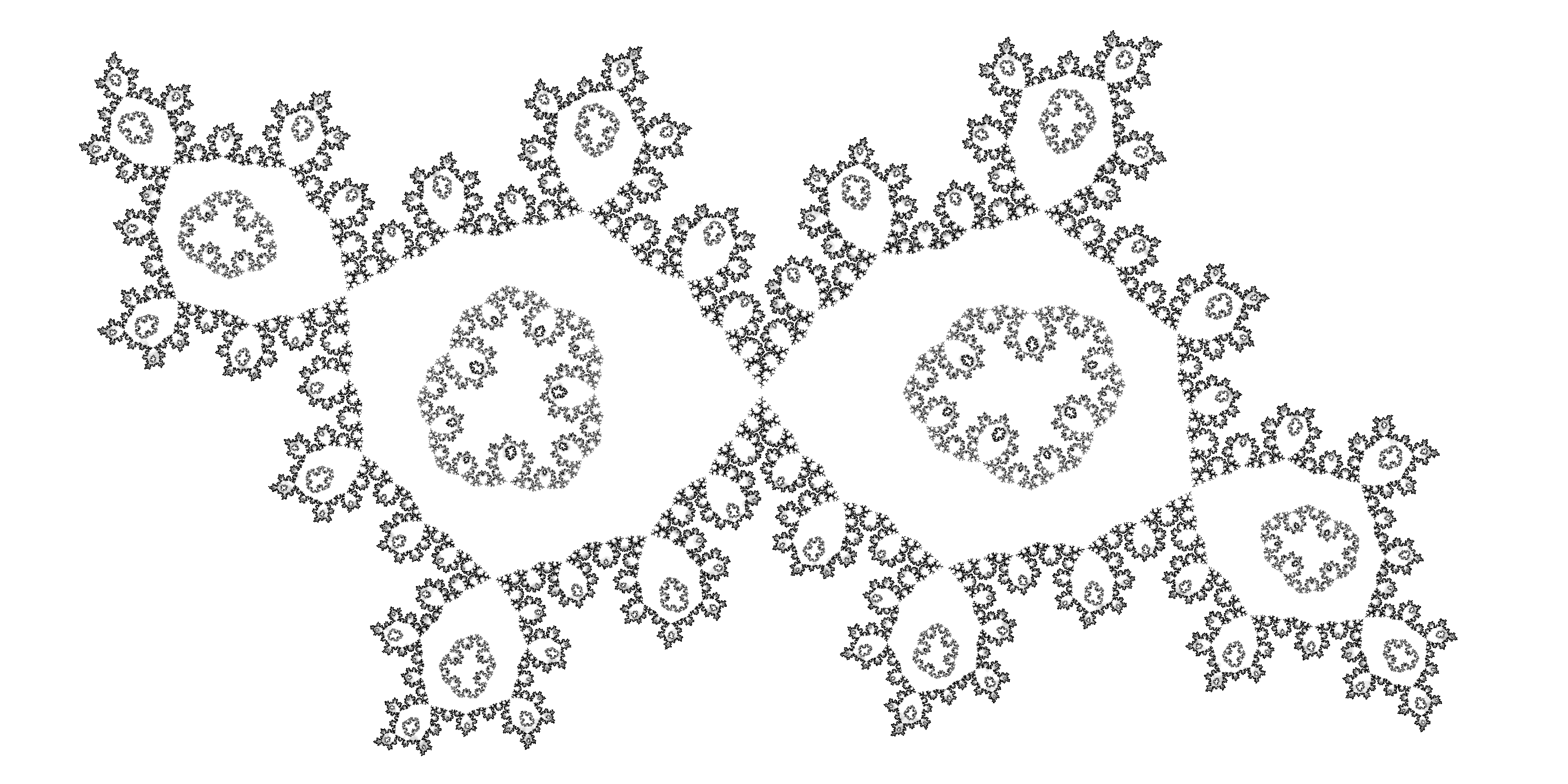 Julia set for rational map with Herman rings.